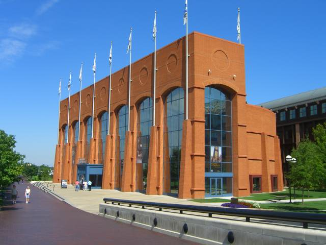 NCAA Hall of Champions building located in Indianapolis, Indiana.